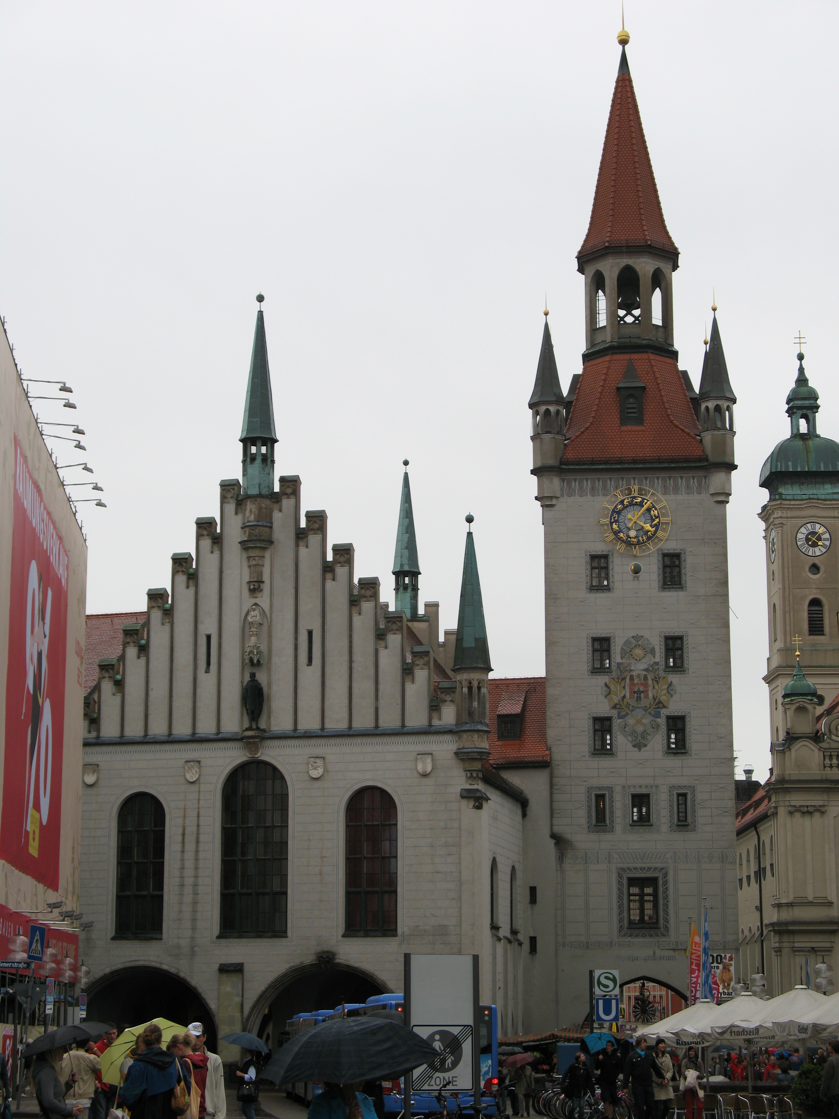 Old City Hall, Munich, Germany